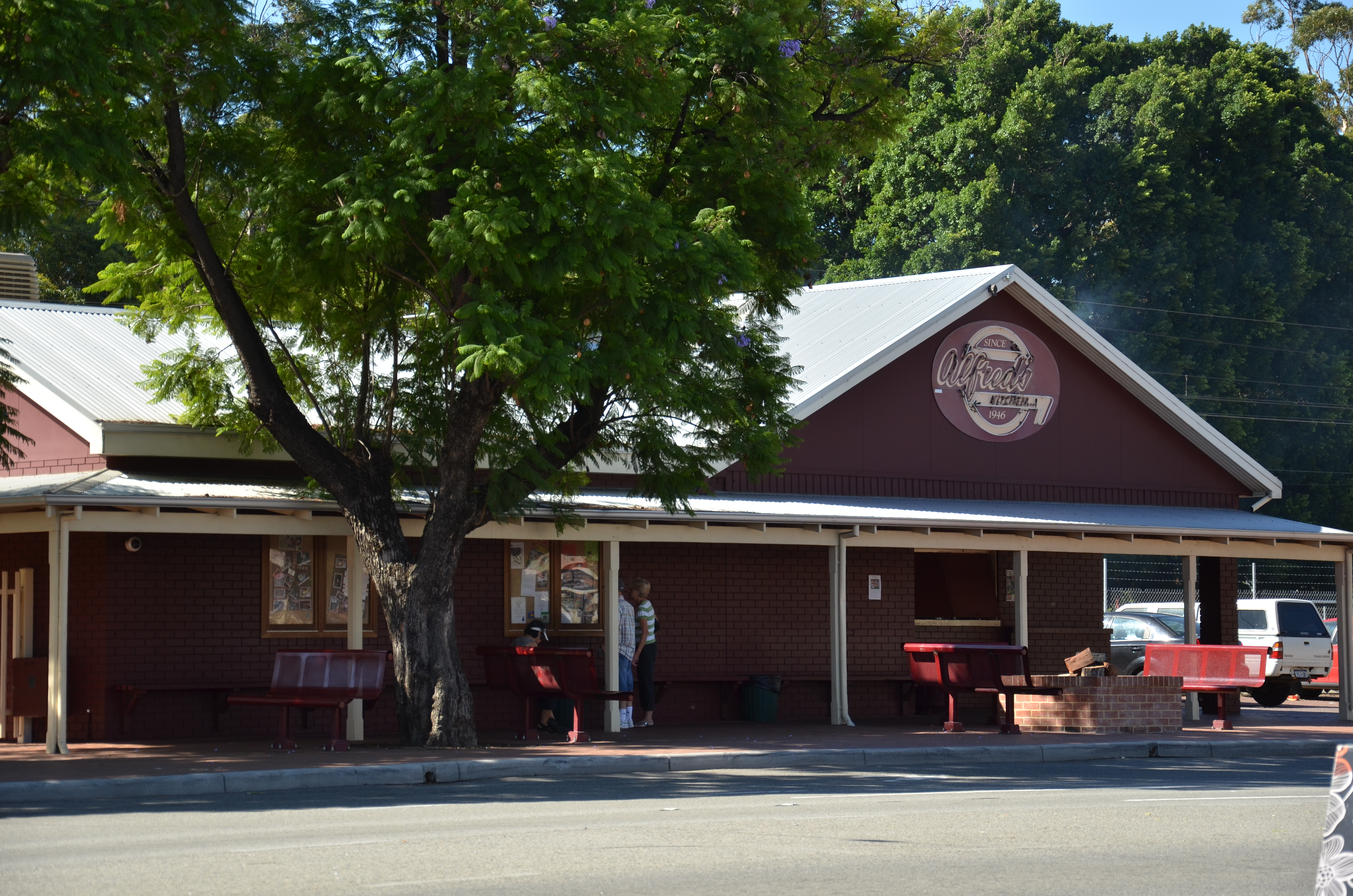 Alfreds Kitchen, James Street, Guildford, Western Australia